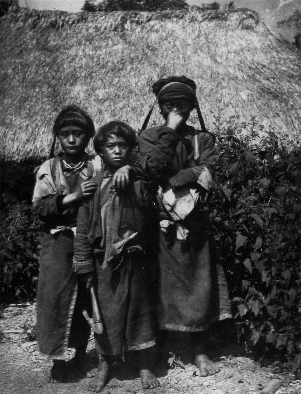 Young aborigine girls from Ali Mountain, Taiwan